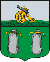 Bely (Tver oblast), coat of arms (1780)